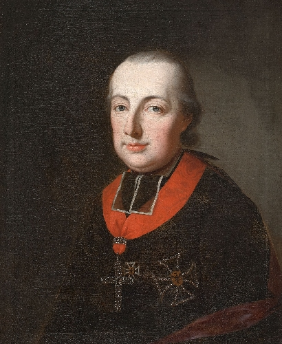 Portrait of Archduke Maximilian Franz of Austria (1756-1801), the painting depicts him wearing a black cassock with diamond studded pectorale and the emblem of the German Order.